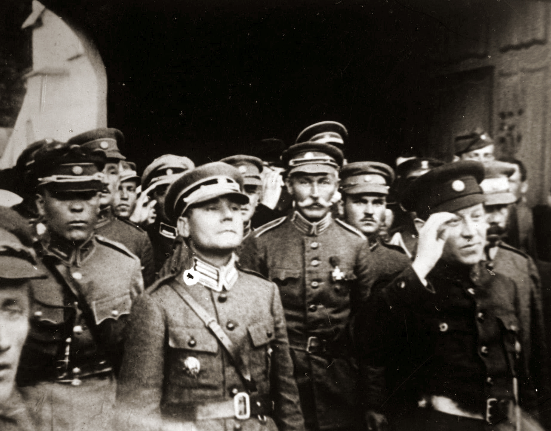 Officers of Army of Ukrainian People's Republic during Polish-Soviet War. In centre Col. Marko Bezruchko, Symon Petlura on the right